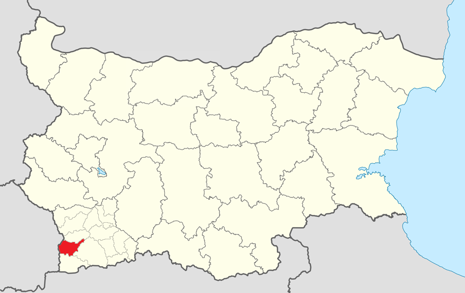 Location map of Strumyani Municipality within Bulgaria and Blagoevgrad province